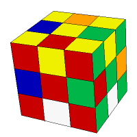 The superflip Rubik's Cube position.